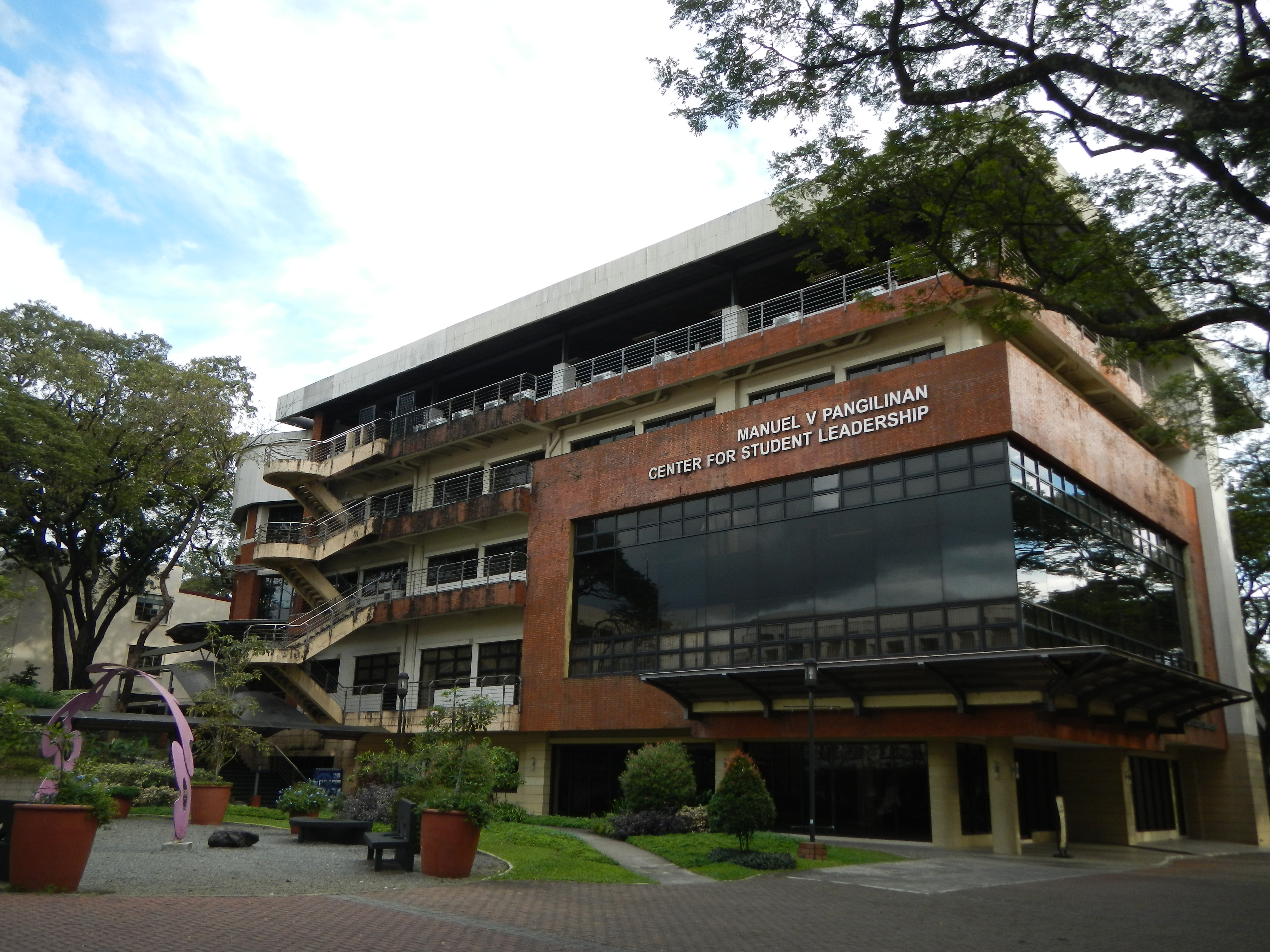 Ateneo de Manila University [1]